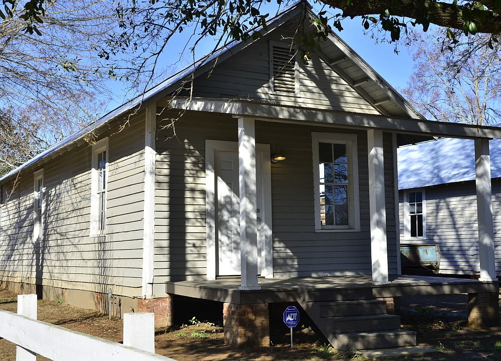 Safe House Museum in Greensboro, Alabama. Martin Luther King Jr. spent the night of March 21, 1968 in this house while fleeing the Klan. The house is now a museum highlighting the struggle for equality by African Americans in Alabama. Its curator, Ms. Theresa Burroughs, was a foot soldier in the Civil Rights Movement and a family friend of King.